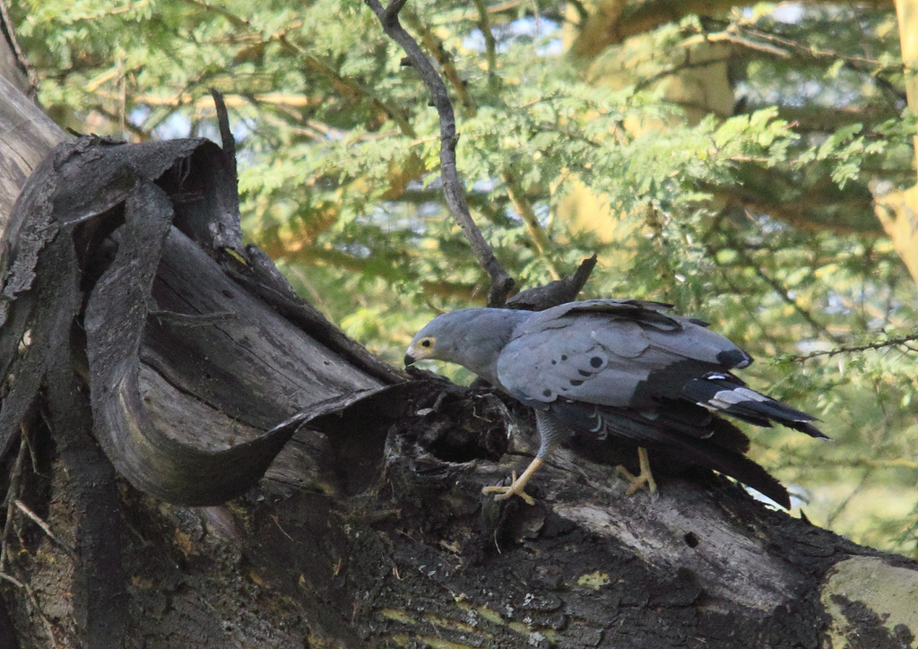 An adult African Harrier-Hawk in Lake Nakuru National Park, Kenya.